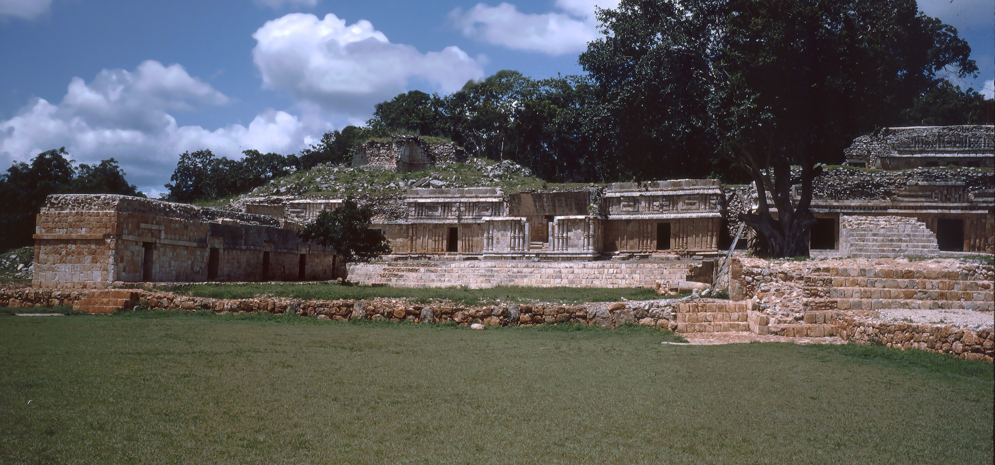 Labná, Yucatán, Mexico: center part of palace.